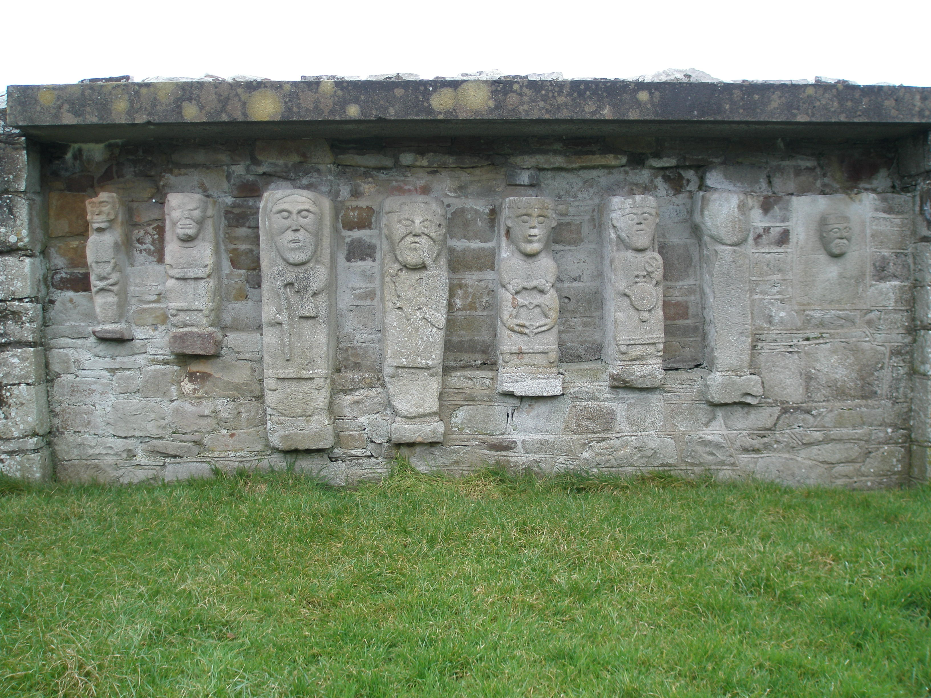 Photo of the figures on White Island ,Lower Lough Erne.